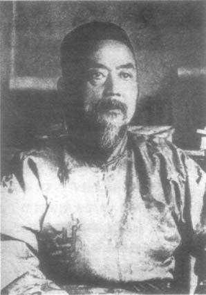 Gu Hongming